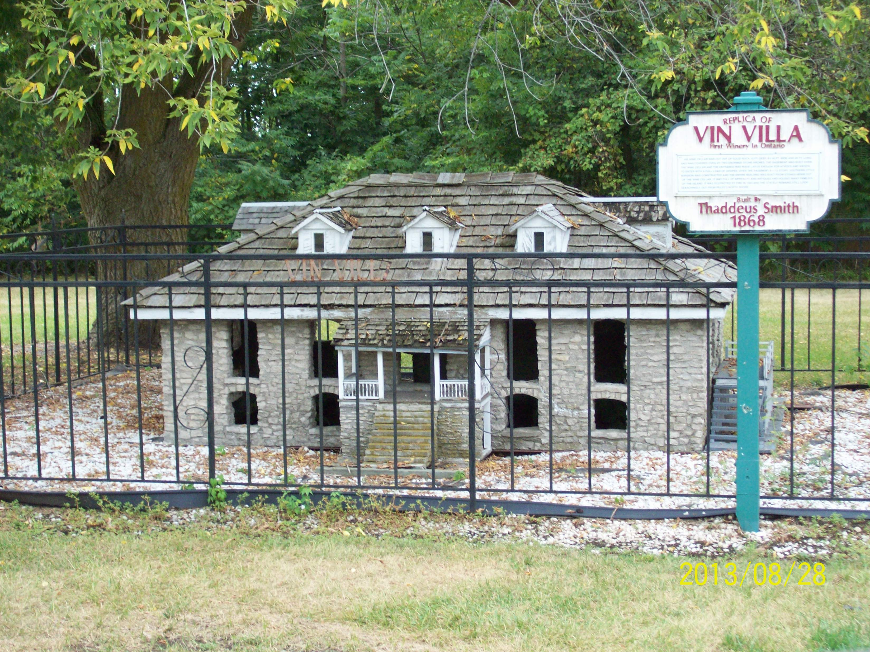 This is a scale model of the first winery in Ontario on Pelee Island in Lake Erie. Everything is to scale including the stones used in its construction. It is located on East West Road near the center of the island